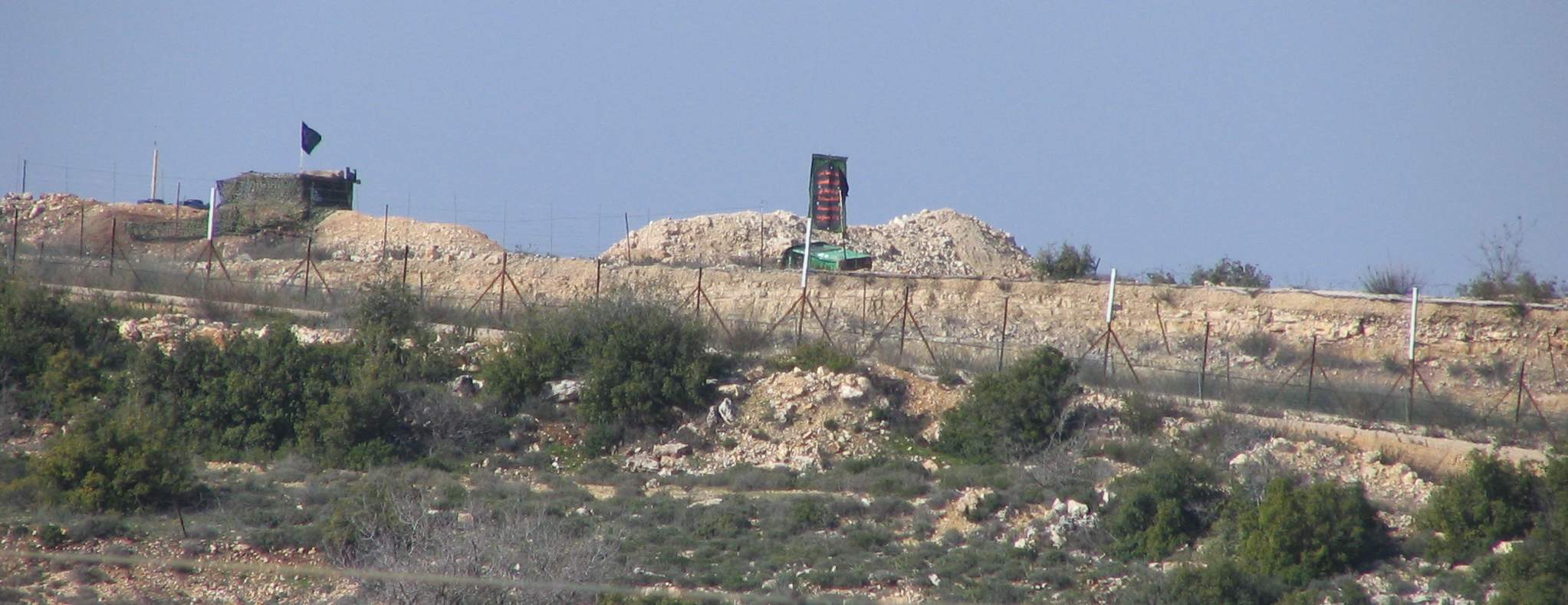 Hezbollah outpost near the Israeli border. This picture was taken by me, with Canon S1IS camera.